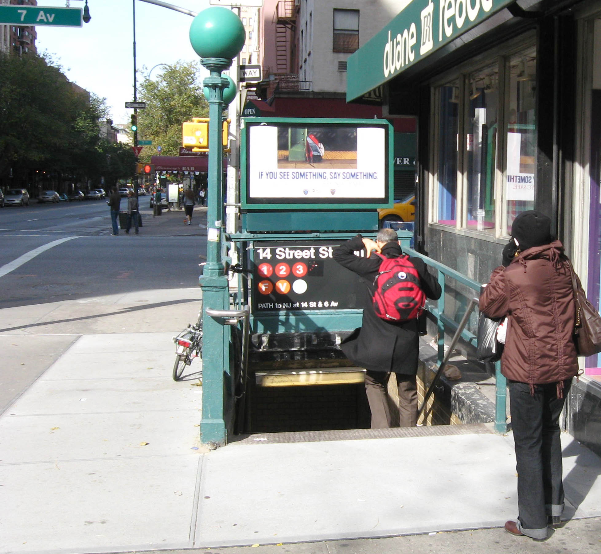 Looking west at 7th Avenue and en:14th Street (IRT Broadway–Seventh Avenue Line) northeastern street stair on a sunny late morning